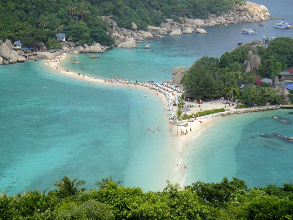 Koh Nang Yuan (Thailand) fomr the view point